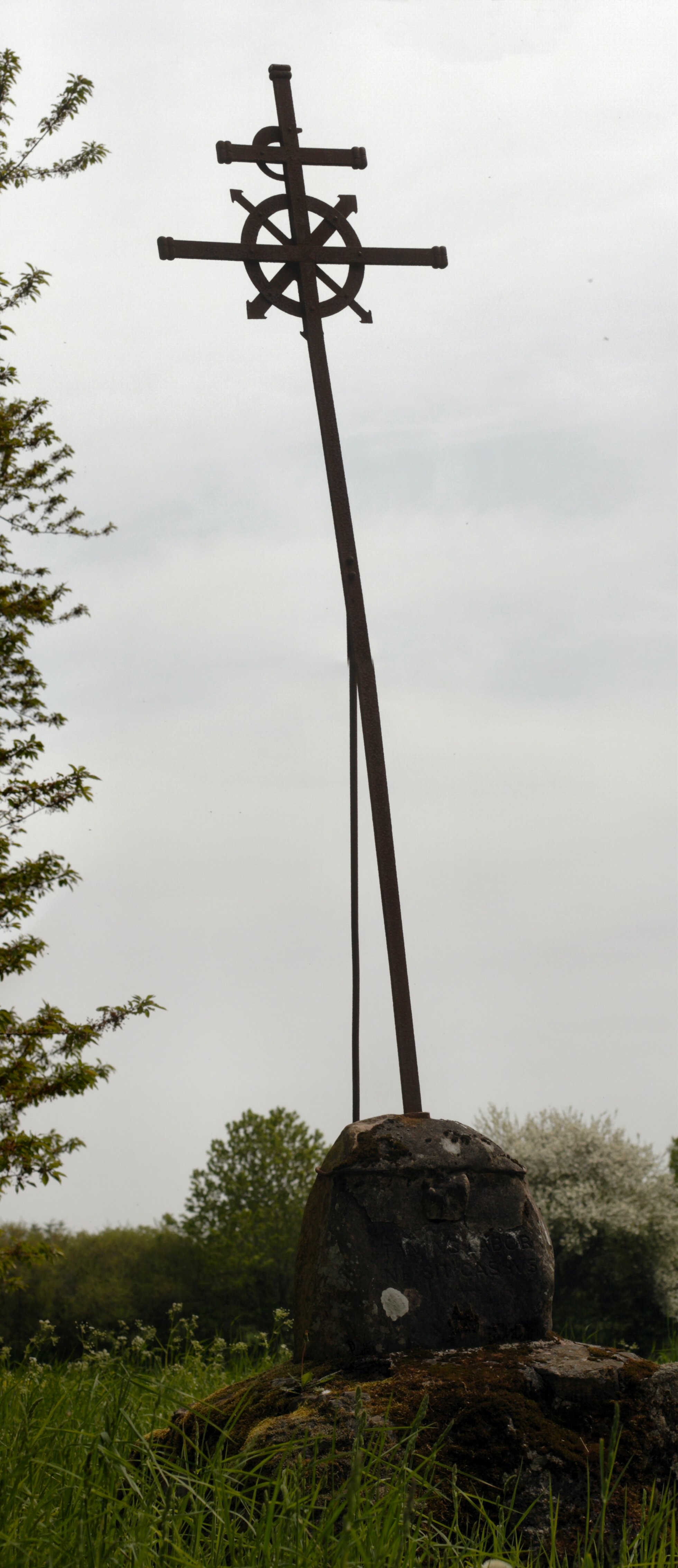 Memorial cross on the site of the demolished church